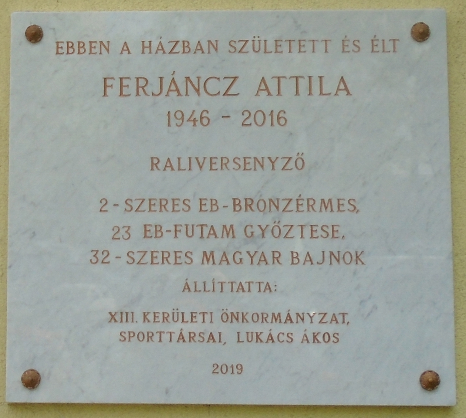 Attila Ferjáncz's commemorative plaque in Budapest District XIII.